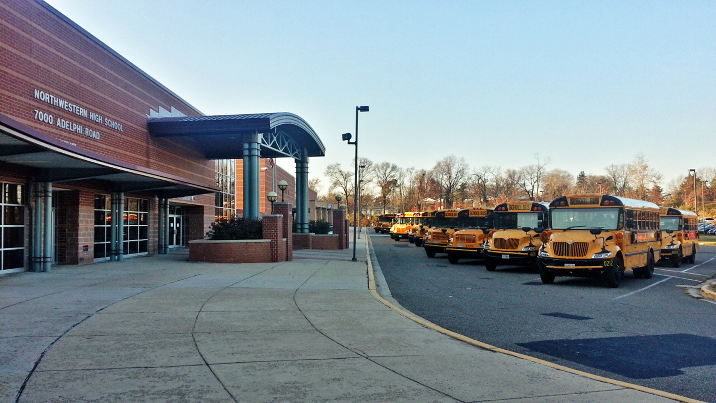 The front facade of Northwestern, with the C-Wing in the foreground, and after-school bus traffic in the designated bus lanes.